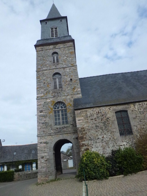 Porch-Bell Tower, Plurien (Britanny)